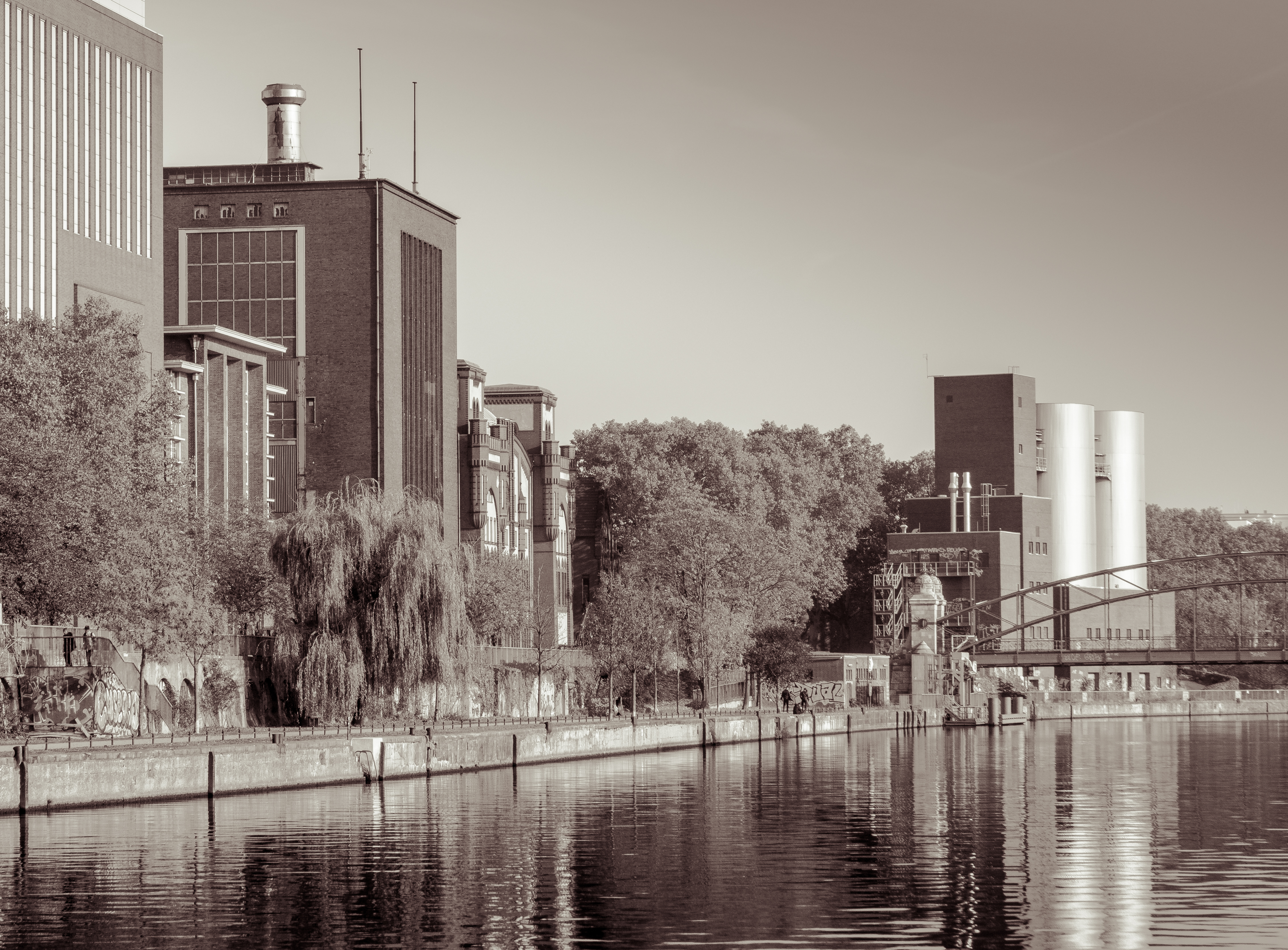 Berlin, Spree, Spree-side view of Heizkraftwerk Charlottenburg from Iburger Ufer